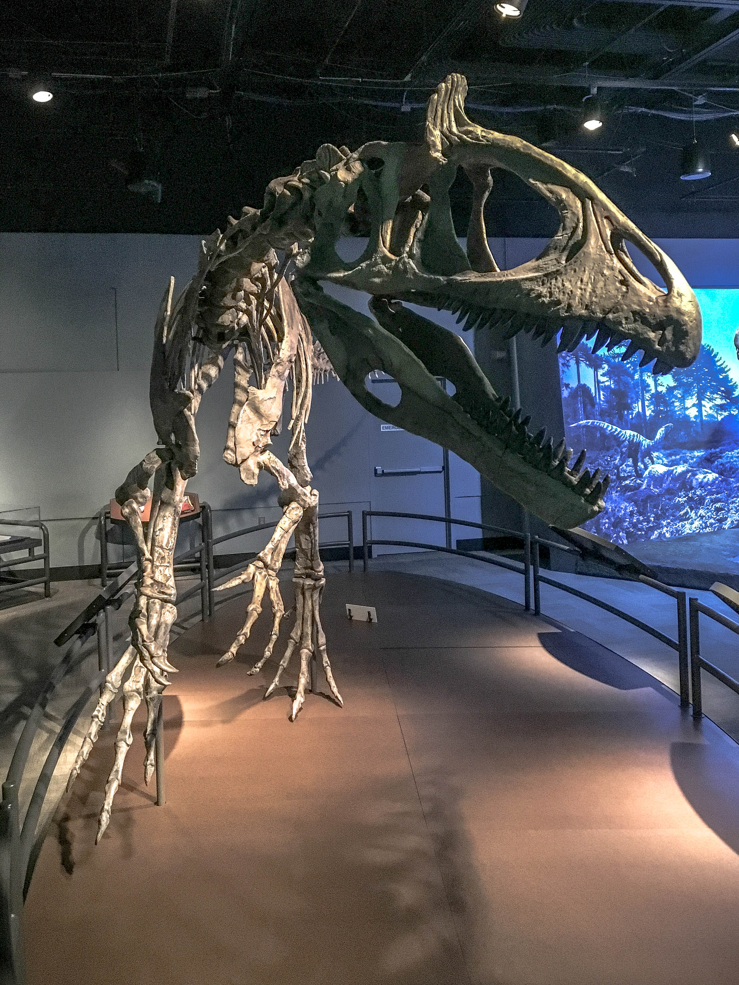 Cryolophosaurus 2018 Update